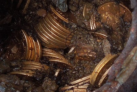 Saddle Ridge Hoard of coins and dirt